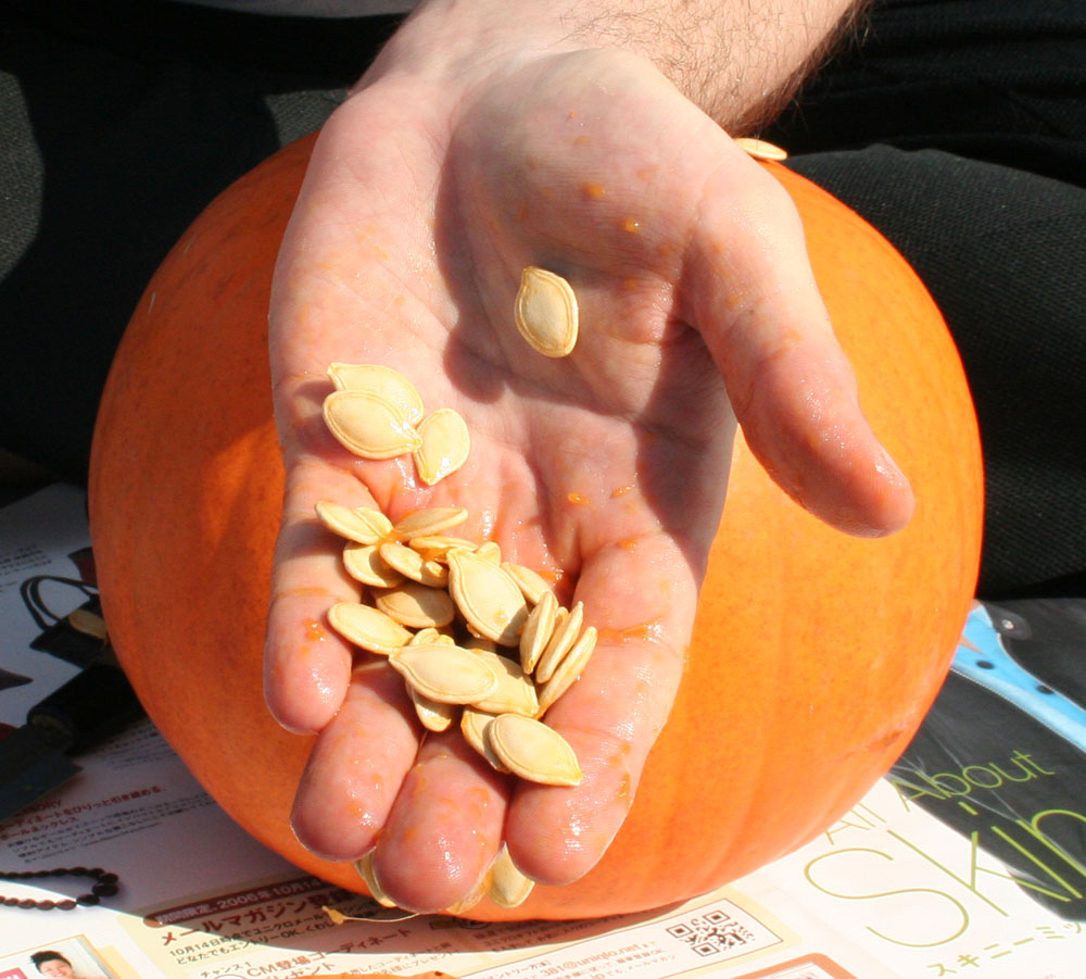 Taken for Halloween during a carving